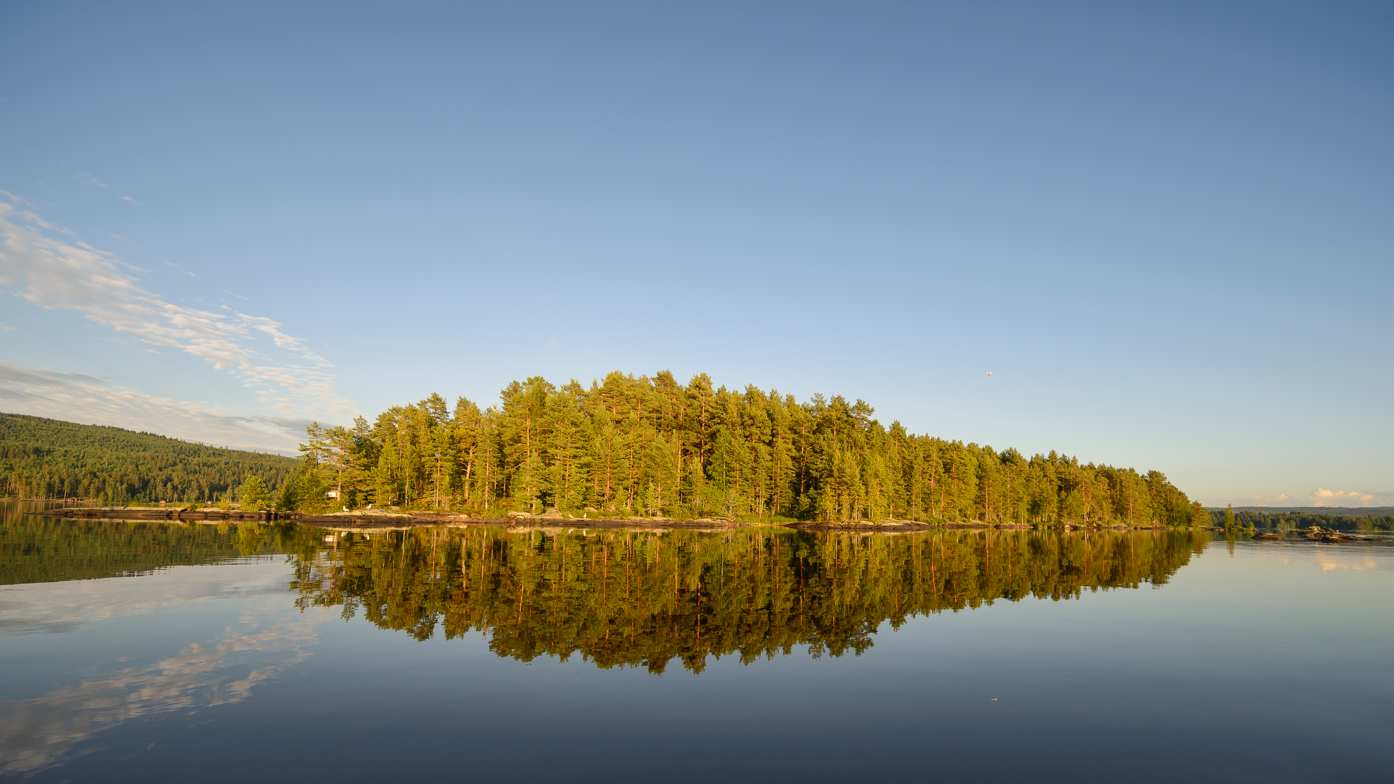 The islet Prästön in Lake Insjön, Leksand Municipality. The uninhabited islet is a nature reserve.